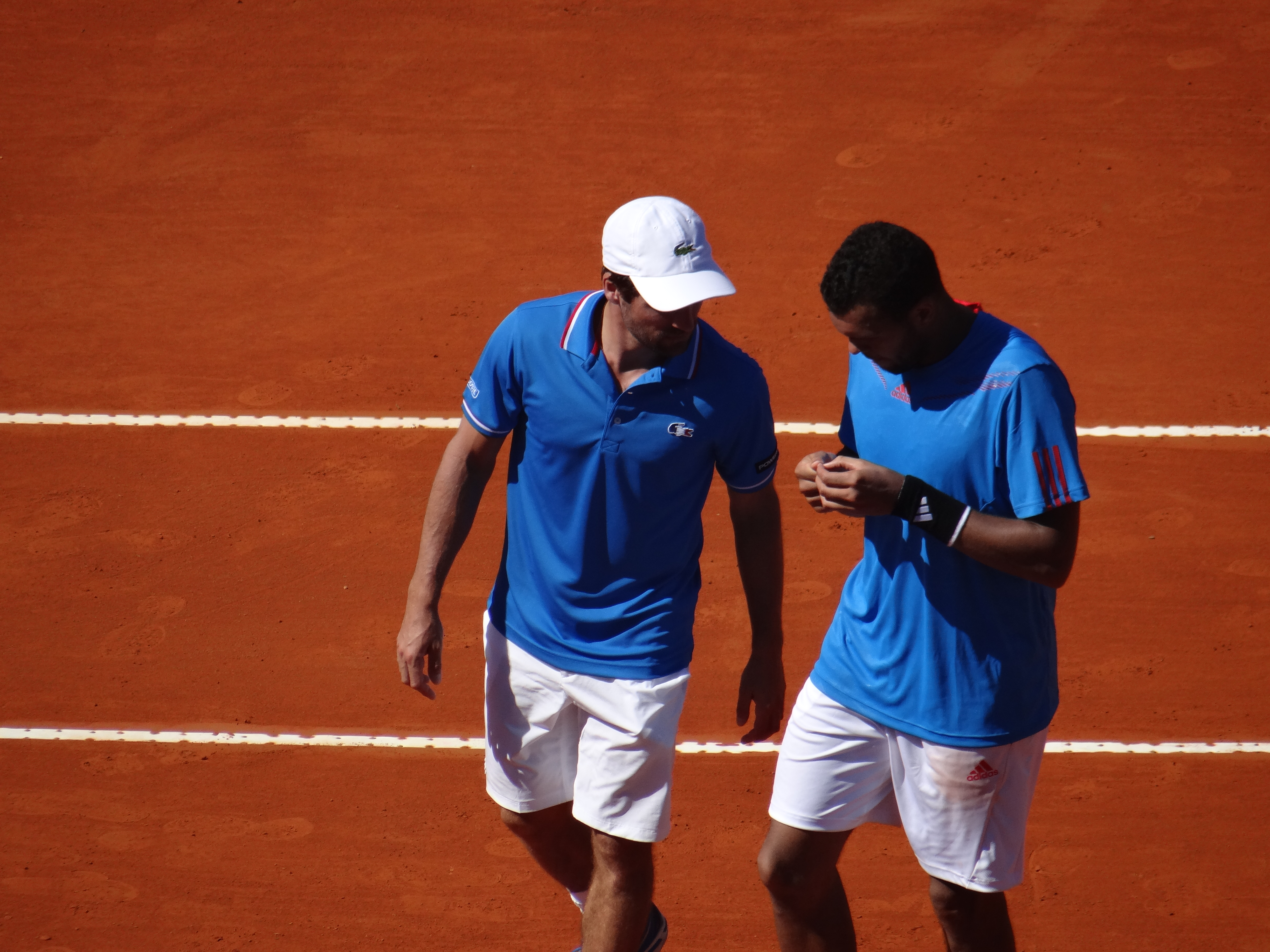 The captain Clément and the player Tsonga in the Mary Terán de Weiss Stadium at Buenos Aires